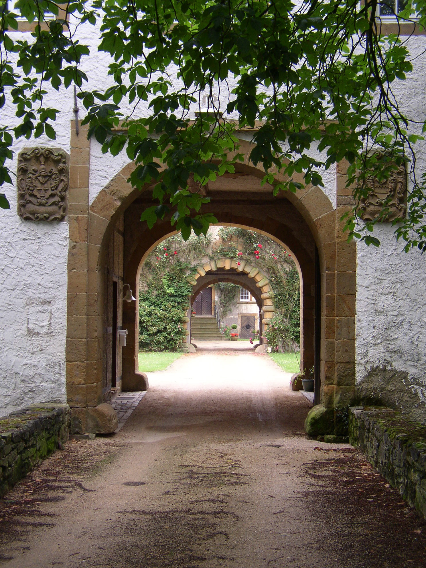 gate house of moated castle Holtfeld in Borgholzhausen, County of Gütersloh, Germany